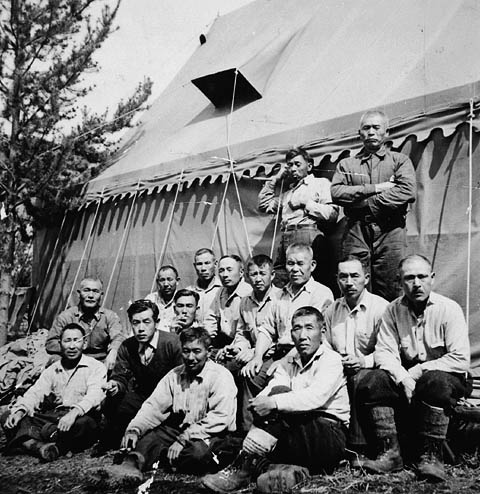 Group of interned Japanese-Canadian men at a road camp on the Yellowhead Pass.